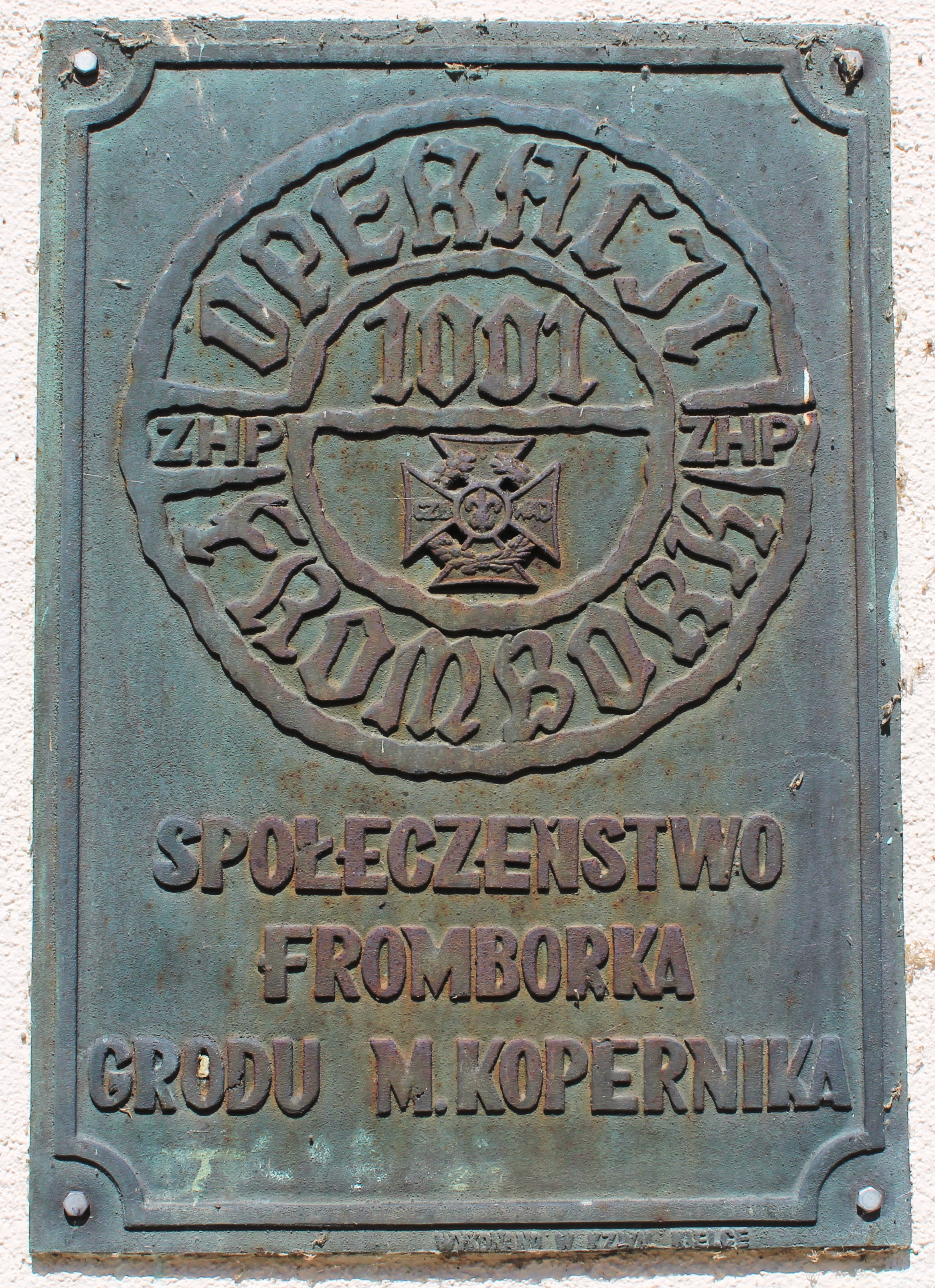 Operacja 1001-Frombork memory board (Polish Scouting and Guiding Association)